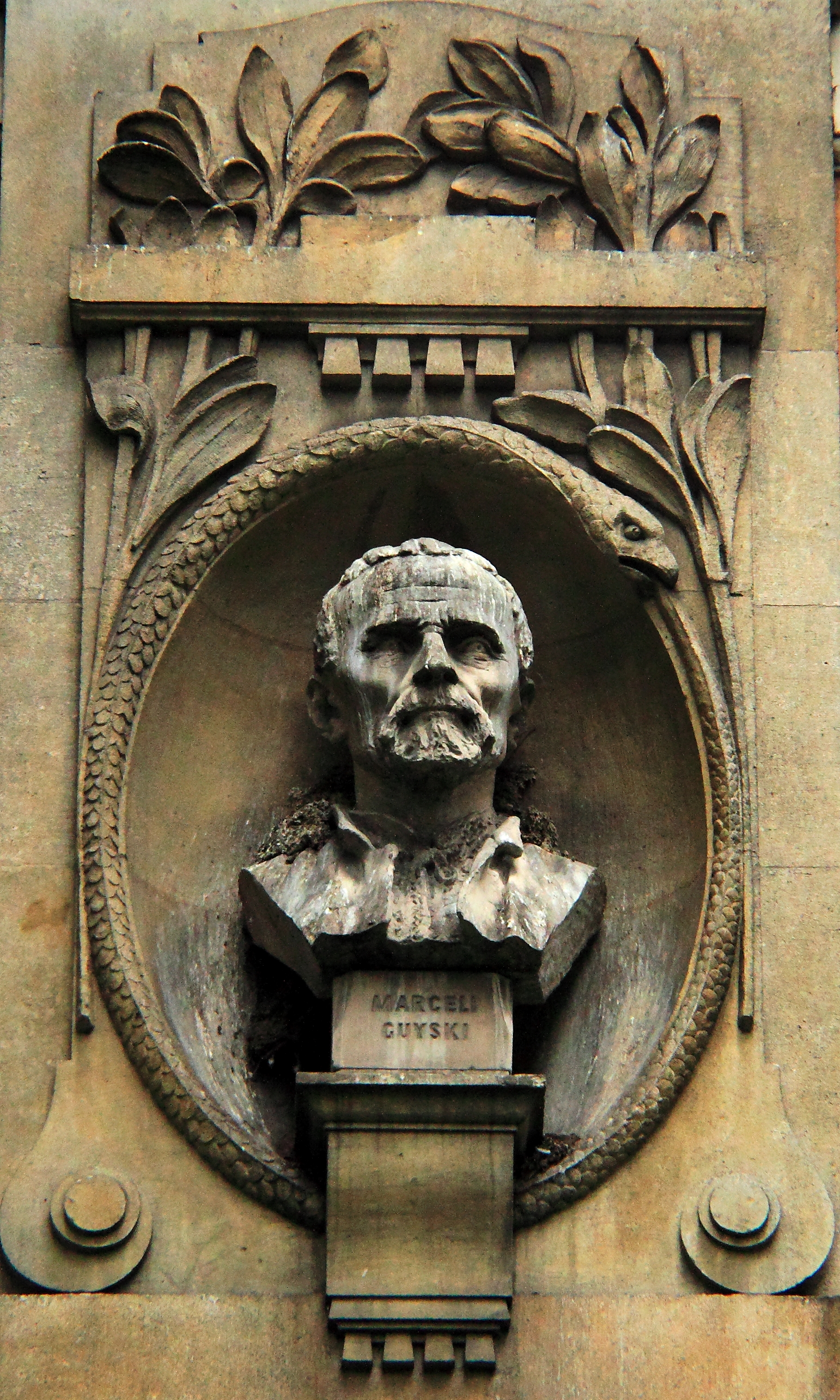 bust of Marceli Guyski